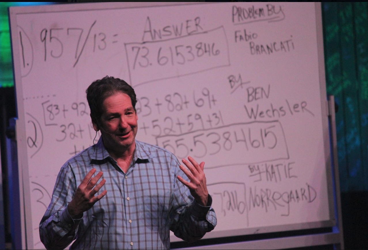 Mike Byster presenting at TEDxNaperville in 2016